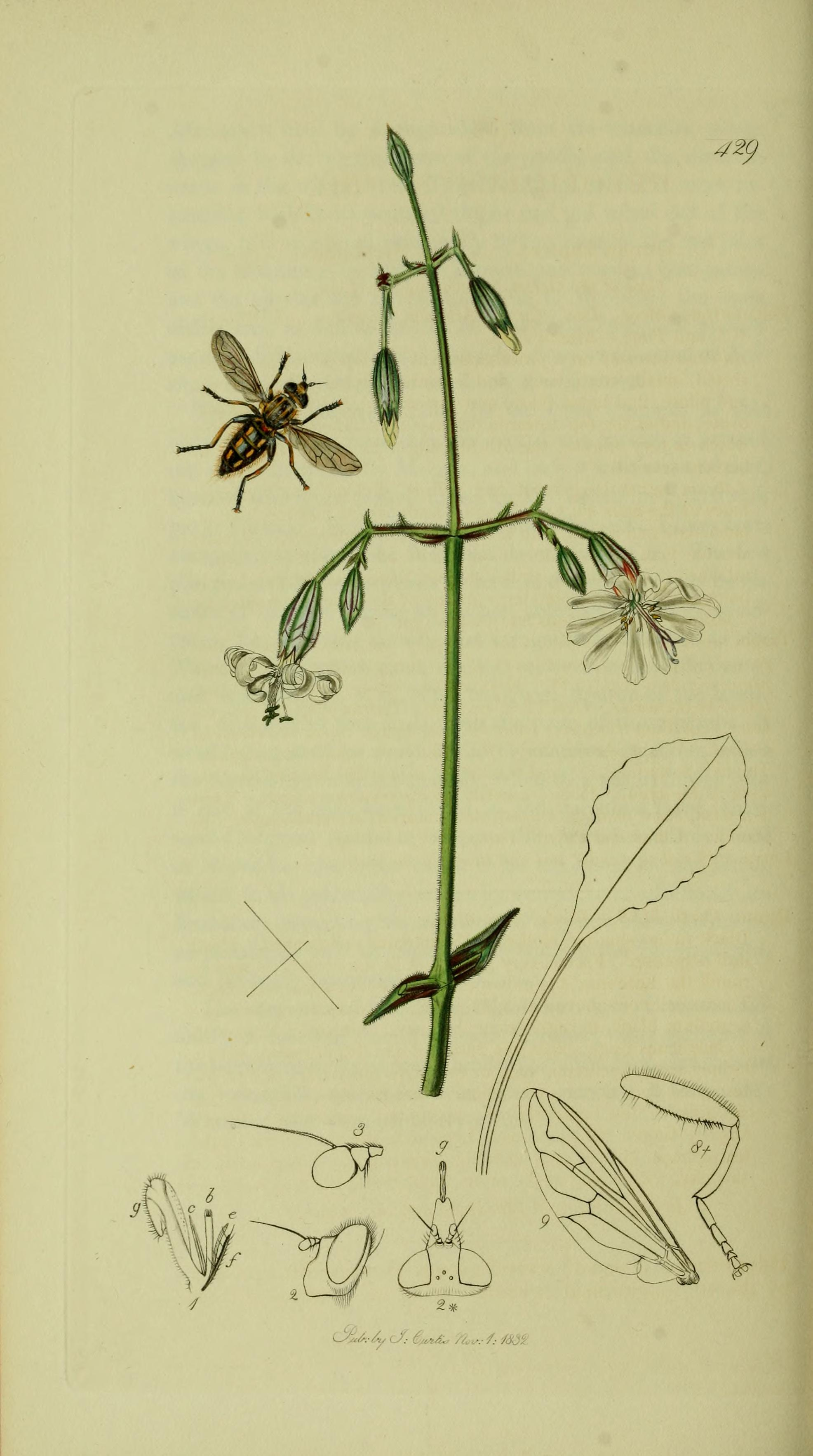 ohn Curtis British Entomology (1824-1840) Folio 429 Helophilus ruddii = Lejops vittatus (Yarmouth Hover-fly).The plant is Silene nutans (Nottingham Catchfly).